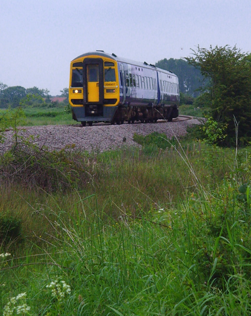 Train at Leconfield Low Parks, Leconfield, East Riding of Yorkshire, England.Beverley to Scarborough train seen from the Minster Way footpath